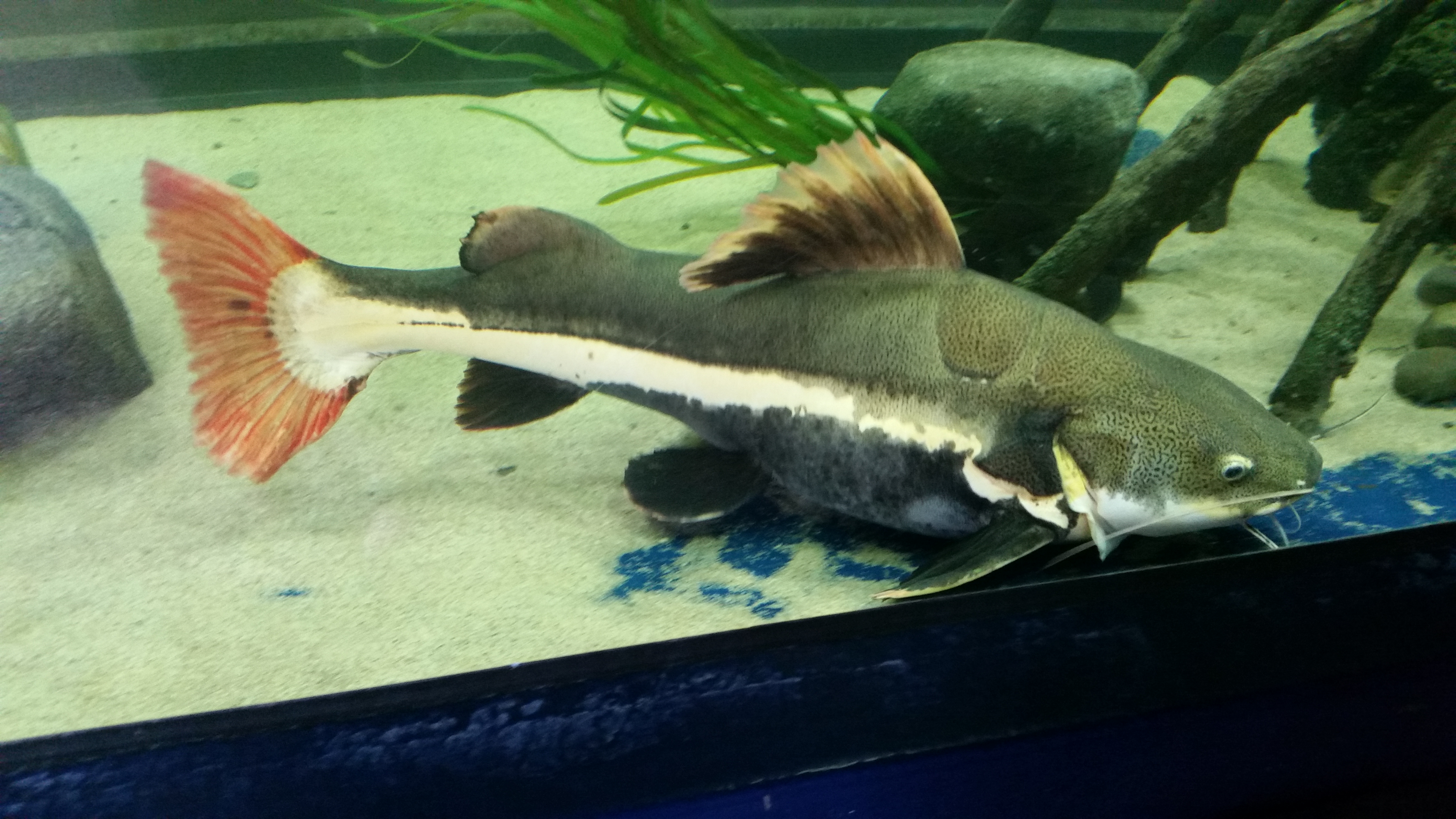 Redtail catfish (Phractocephalus hemioliopterus) in Southend-on-Sea aquarium, England.